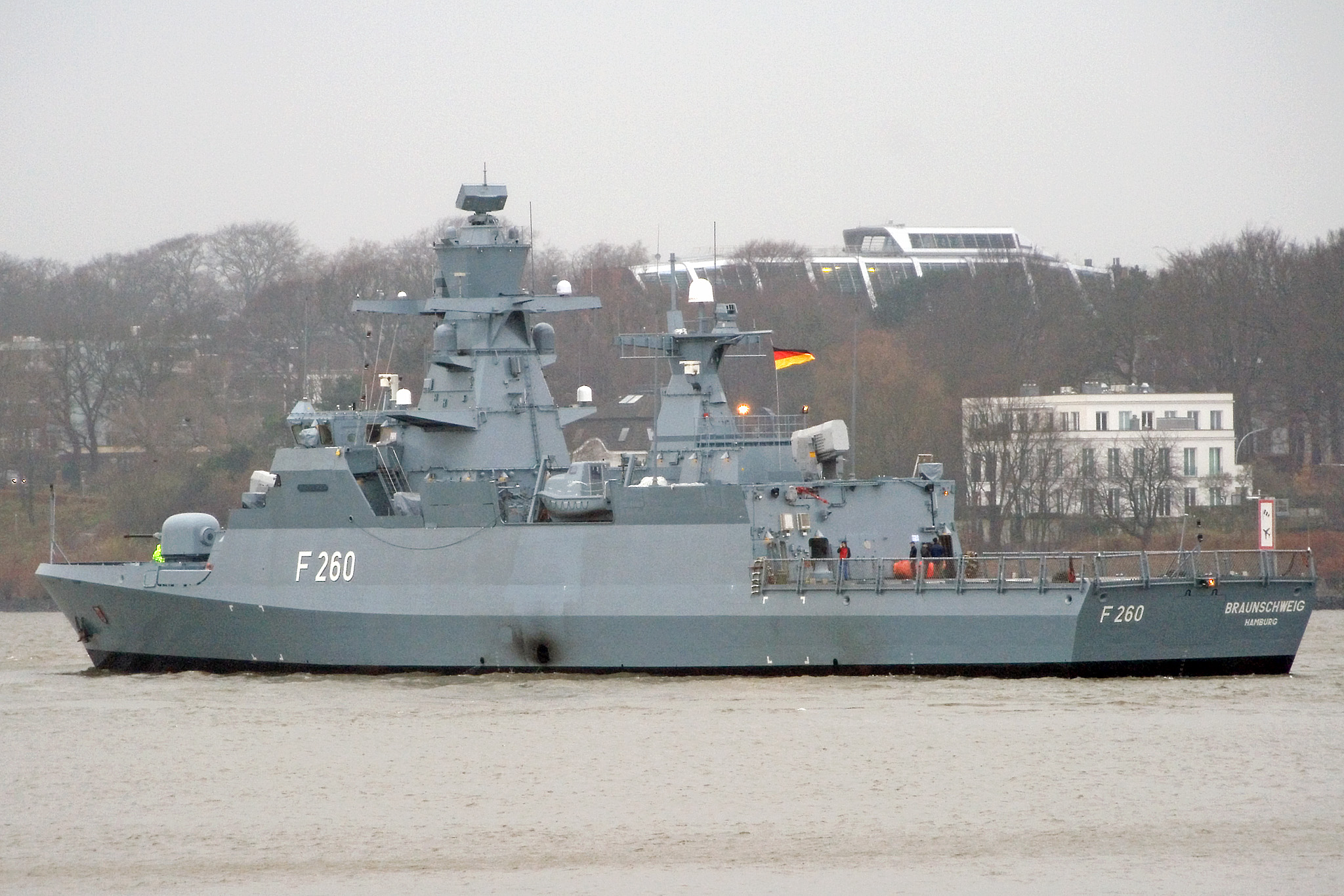 The German navy's corvette Braunschweig ( F 260) sails from Hamburg, Germany on December 11, 2006 for her first voyage. The ”Braunschweig“ is the lead ship of the corvette class K 130.